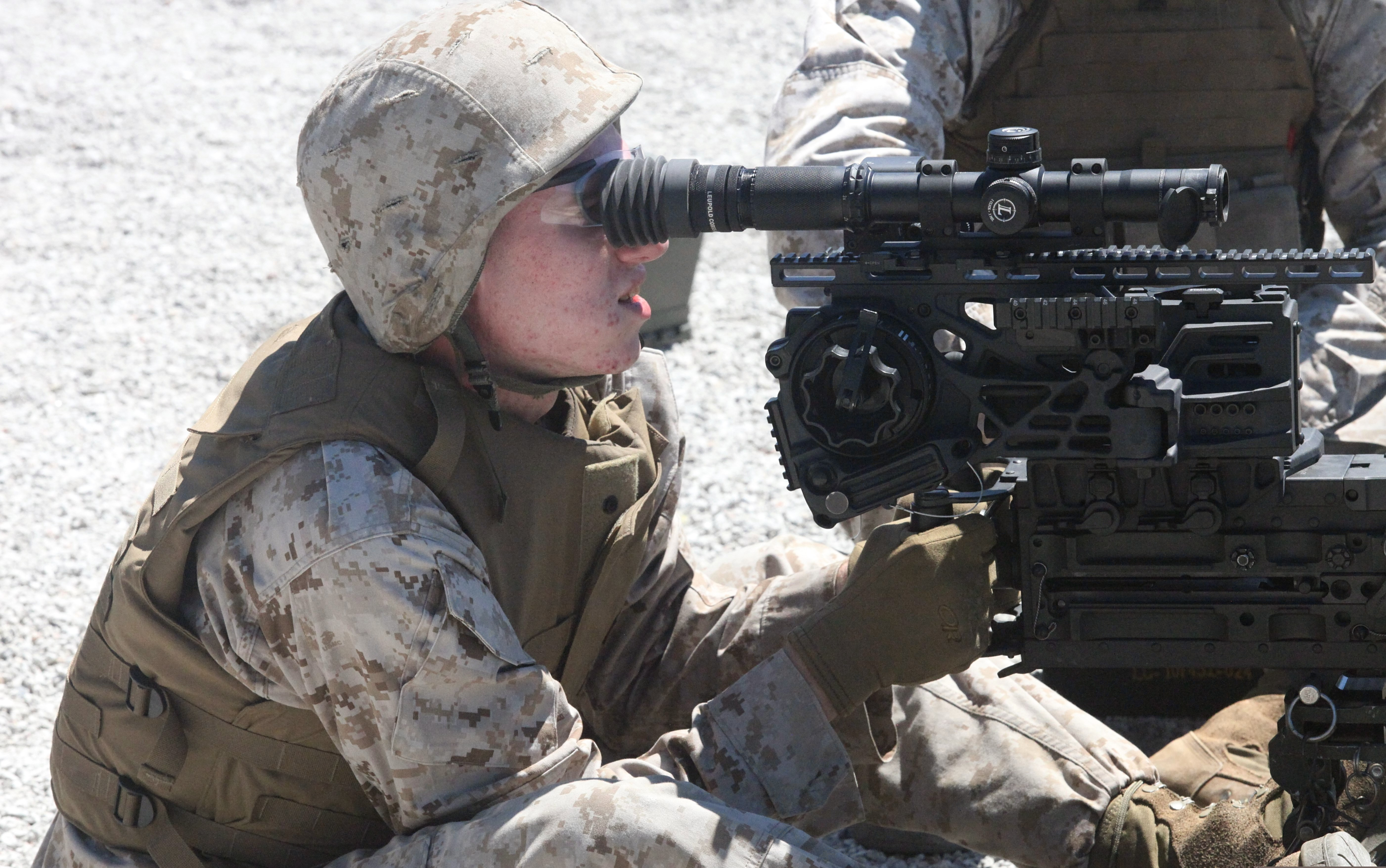 Lance Cpl. Christophe R. Bone, a motor transport mechanic with Truck Company, Headquarters Battalion, 2nd Marine Division, aims down a .50-caliber heavy machine gun sight while preparing to fire at targets as a part of training aboard Marine Corps Camp Lejeune, N.C., Sept. 1, 2011. Marines shot at target silhouettes while moving in a mine resistant ambush protected vehicle and an MRAP all terrain vehicle.